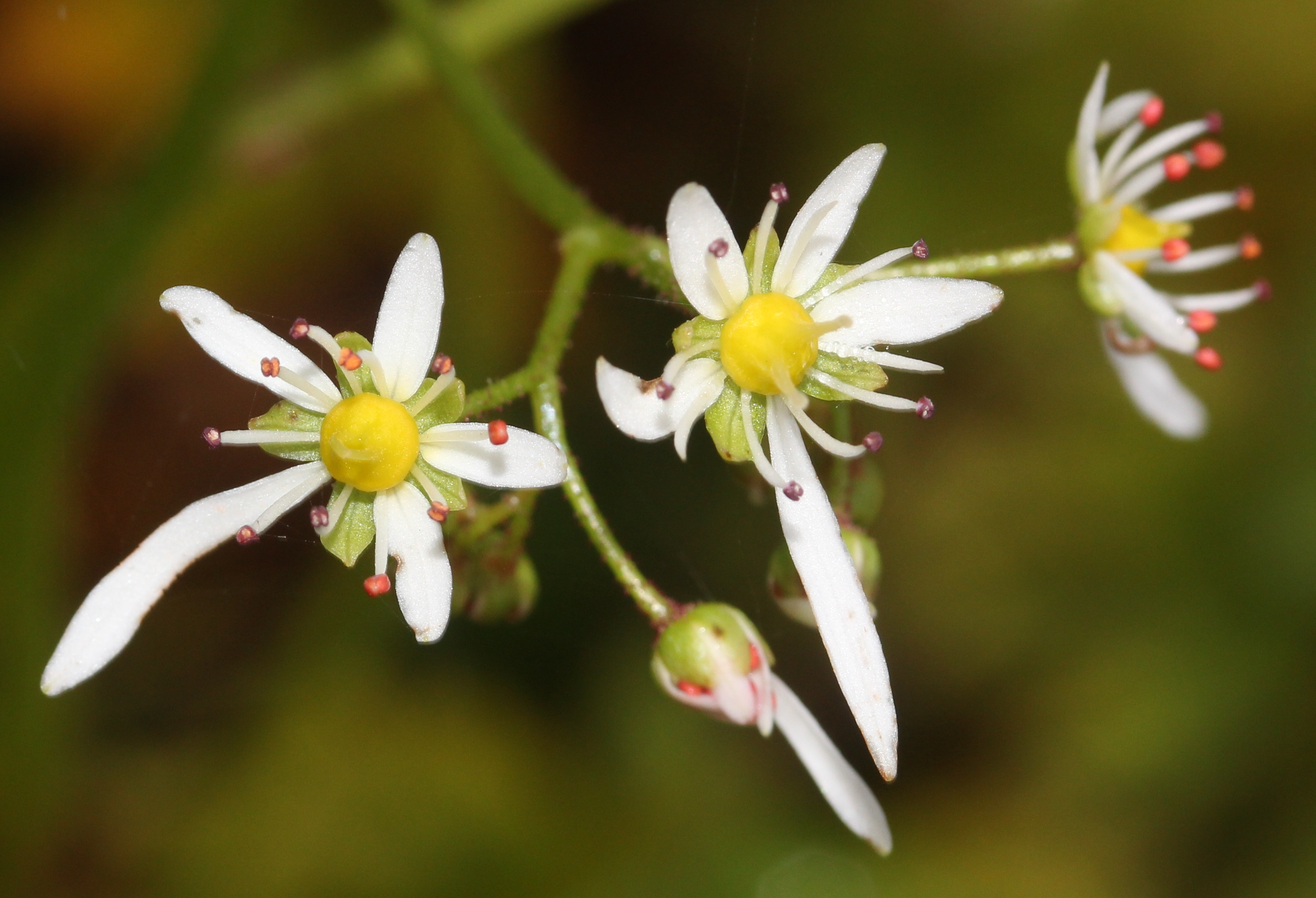 Flower of Saxifraga fortunei Hook.f. var. alpina (Matsum. et Nakai) Nakai in Mount Ibuki, Shira pref., Japan.